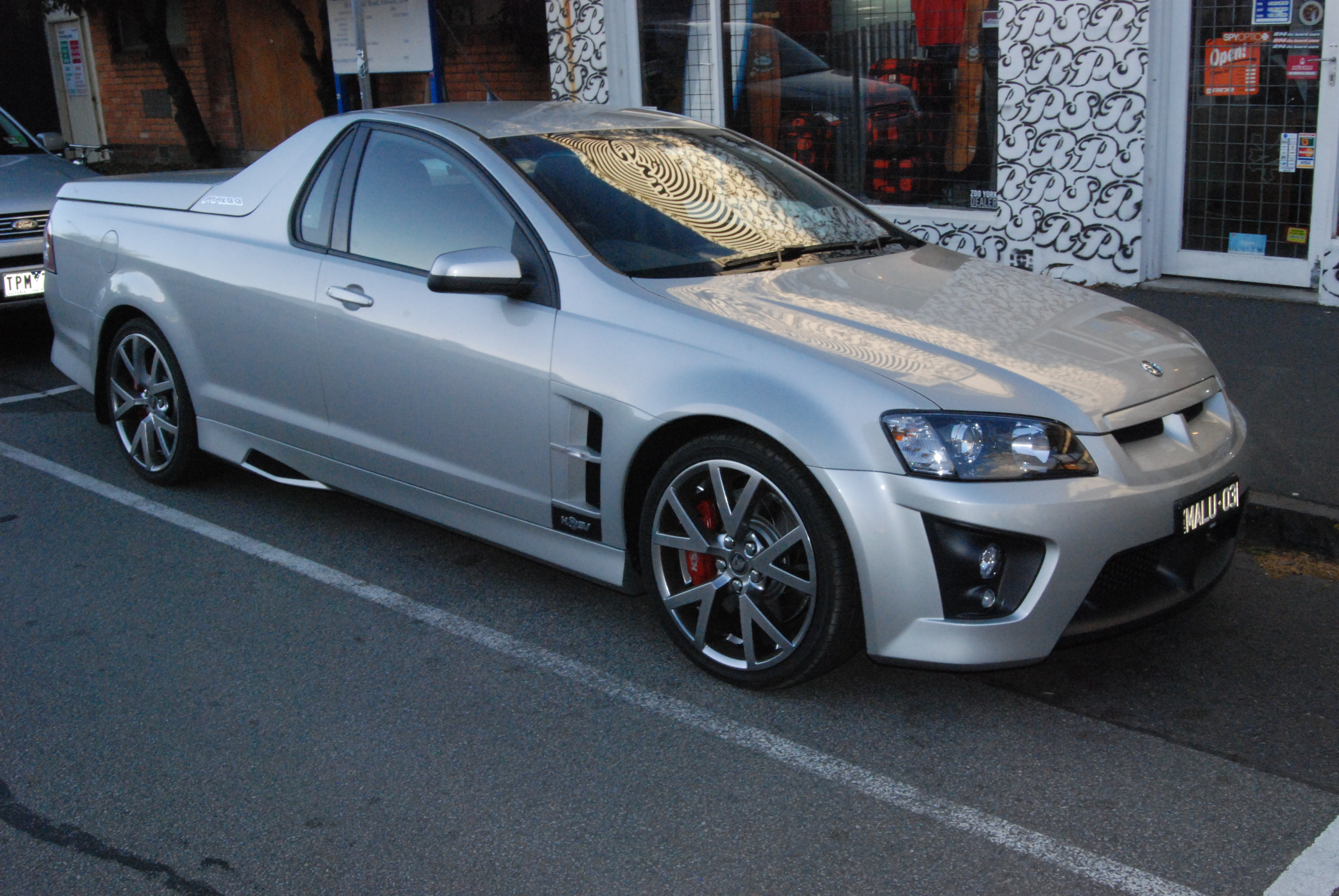 2007 HSV Maloo (E Series MY08.5) R8 utility. Photographed in Victoria, Australia.